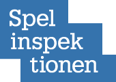 The logotype of Spelinspektionen